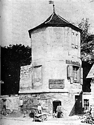 The observatory-tower of the marquis de Courtanvaux, used to create the railway station of Colombes (Hauts-de-Seine, France). Destroyed in 1887.